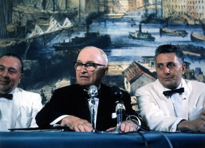 Former President Harry S. Truman (center), Chicago Mayor Richard J. Daley (left), and the head of the AHEPA (right - name not known) hold a press conference. The event is sponsored by the American Hellenic Educational Progressive Association and held at the Sherman House Hotel, Chicago, Illinois, where Truman attended the grand banquet at AHEPA's 40th annual convention. (original negative) From: Credit John McDonough